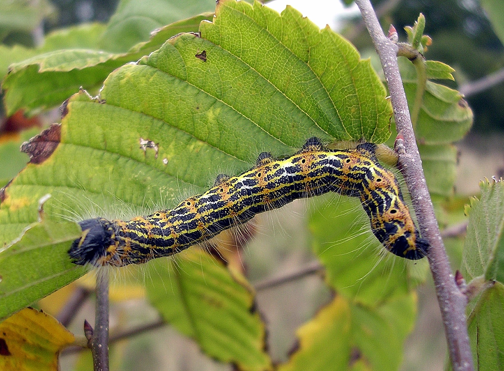 Photo taken by author, Fontley, England, 2006